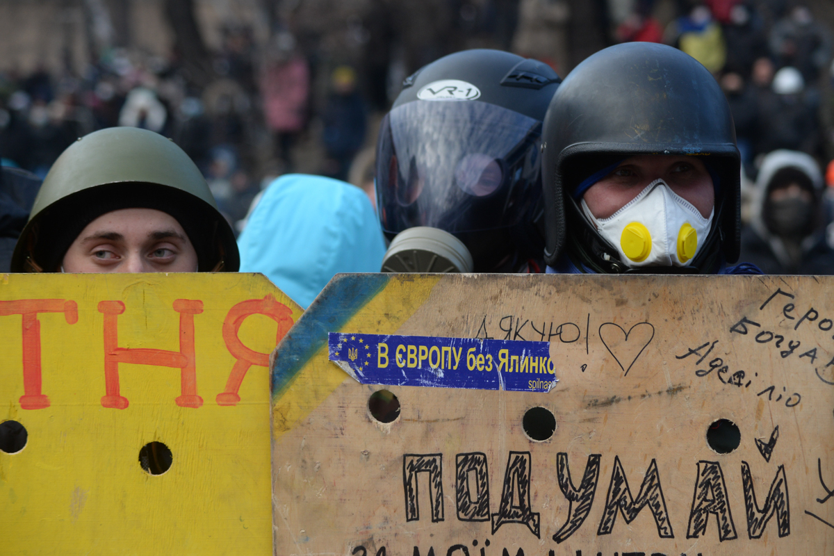 Line of protesters at Dynamivska str. Euromaidan Protests. Events of Jan 20, 2014-2